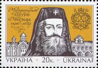 Metropolitan Petro Mohyla (1596-1647) on Stamp of Ukraine